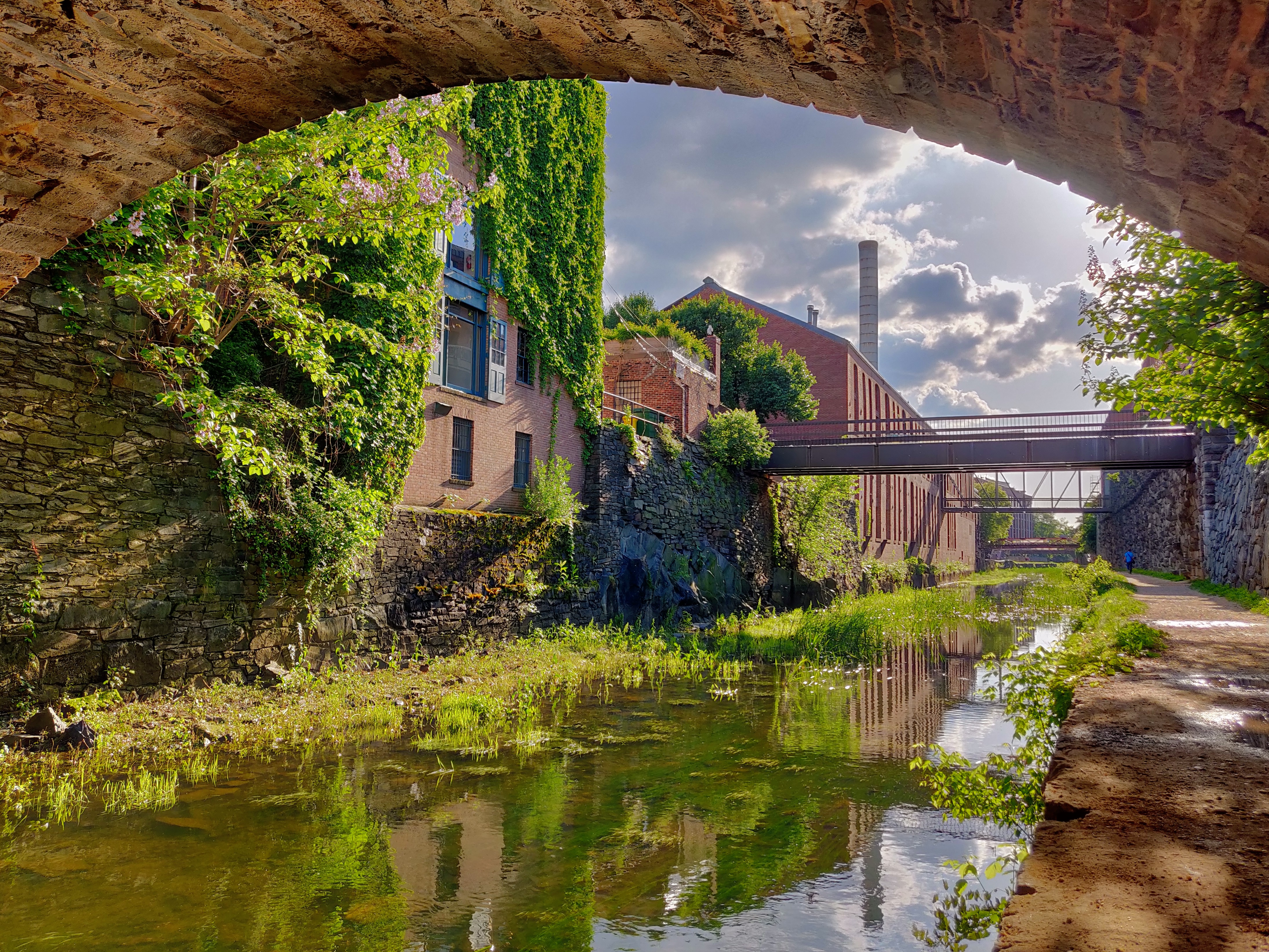 The Chesapeake and Ohio Canal in the Georgetown neighborhood of Washington, D.C.